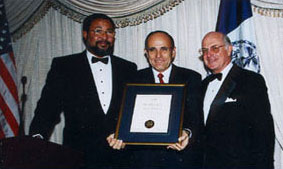 The Executive Director of the Organization (me) gives permission to use this image.